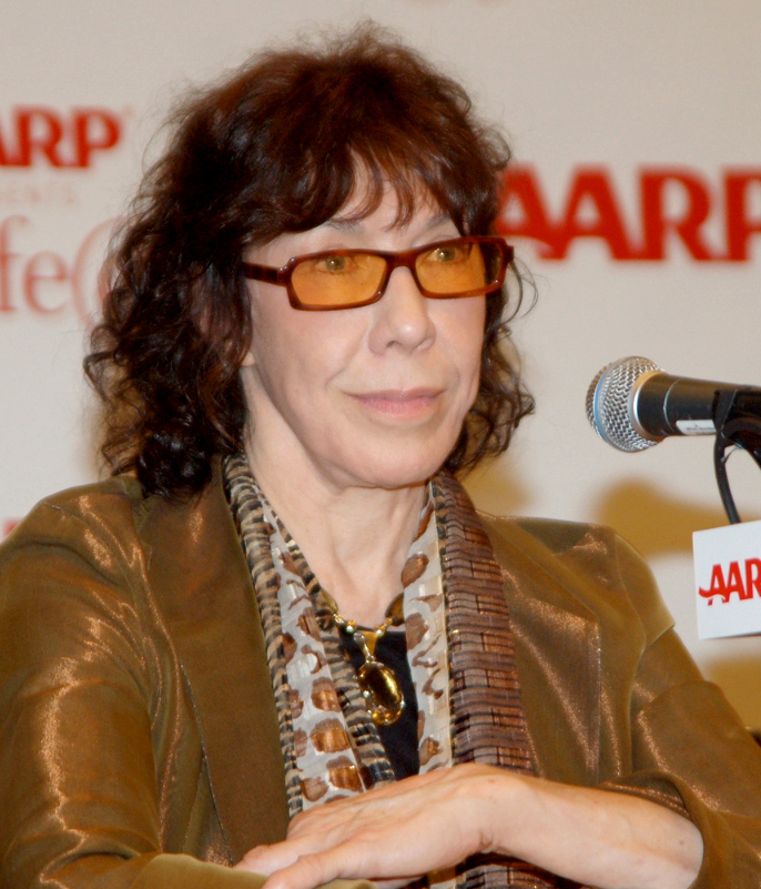 Lily Tomlin attending the AARP's 2011 Life@50+ National Event and Expo in September 2011.